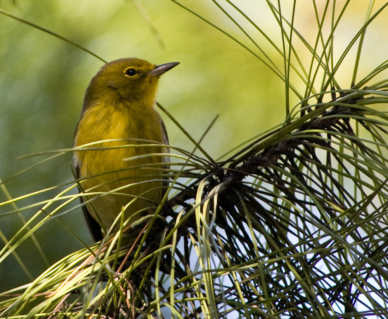 Pine Warbler Setophaga pinus, Green Cay Wetlands, Boynton Beach, Florida.